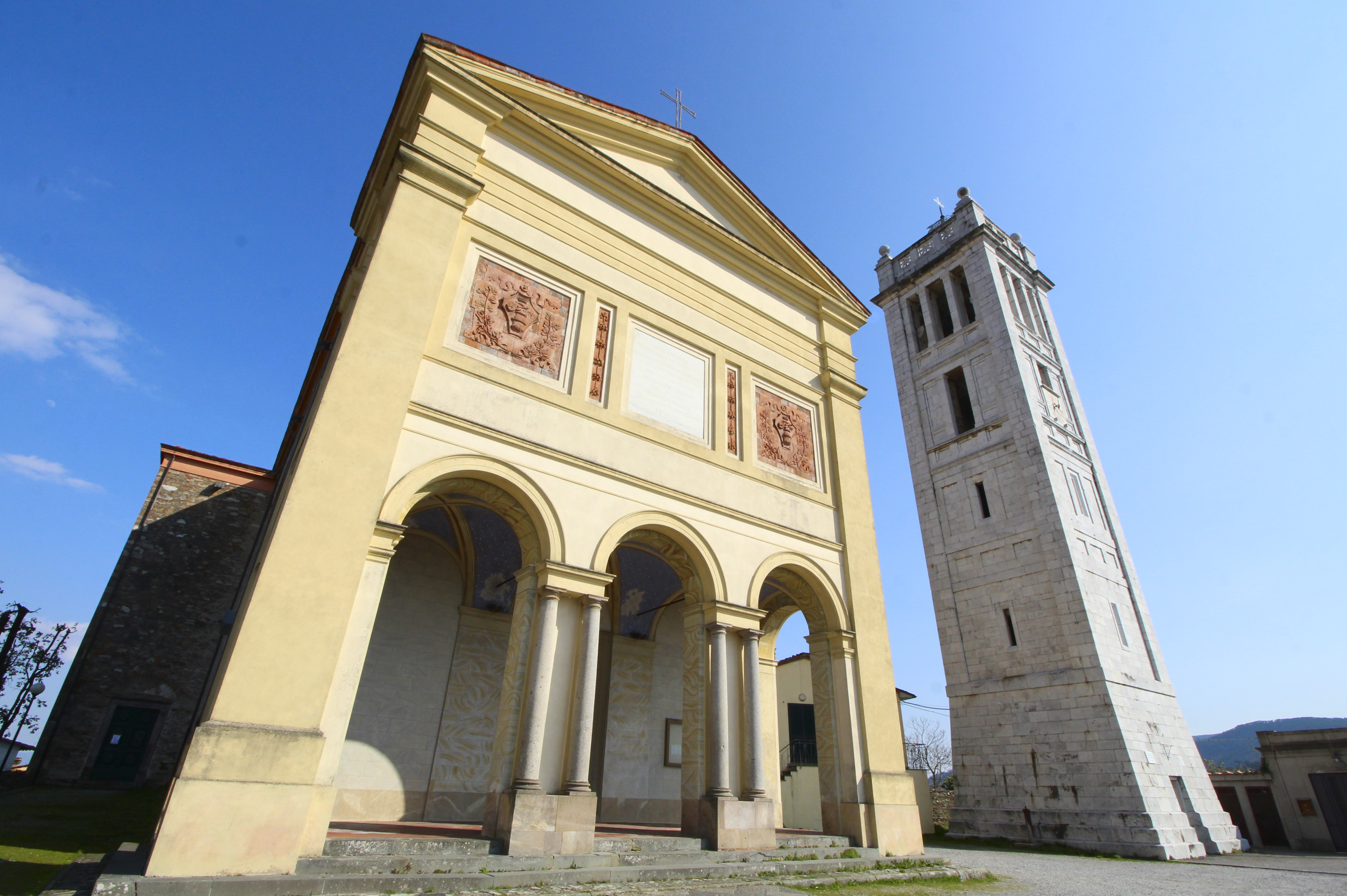 Church San Ginese, San Ginese di Compito, hamlet of Capannori, Province of Lucca, Tuscany, Italy